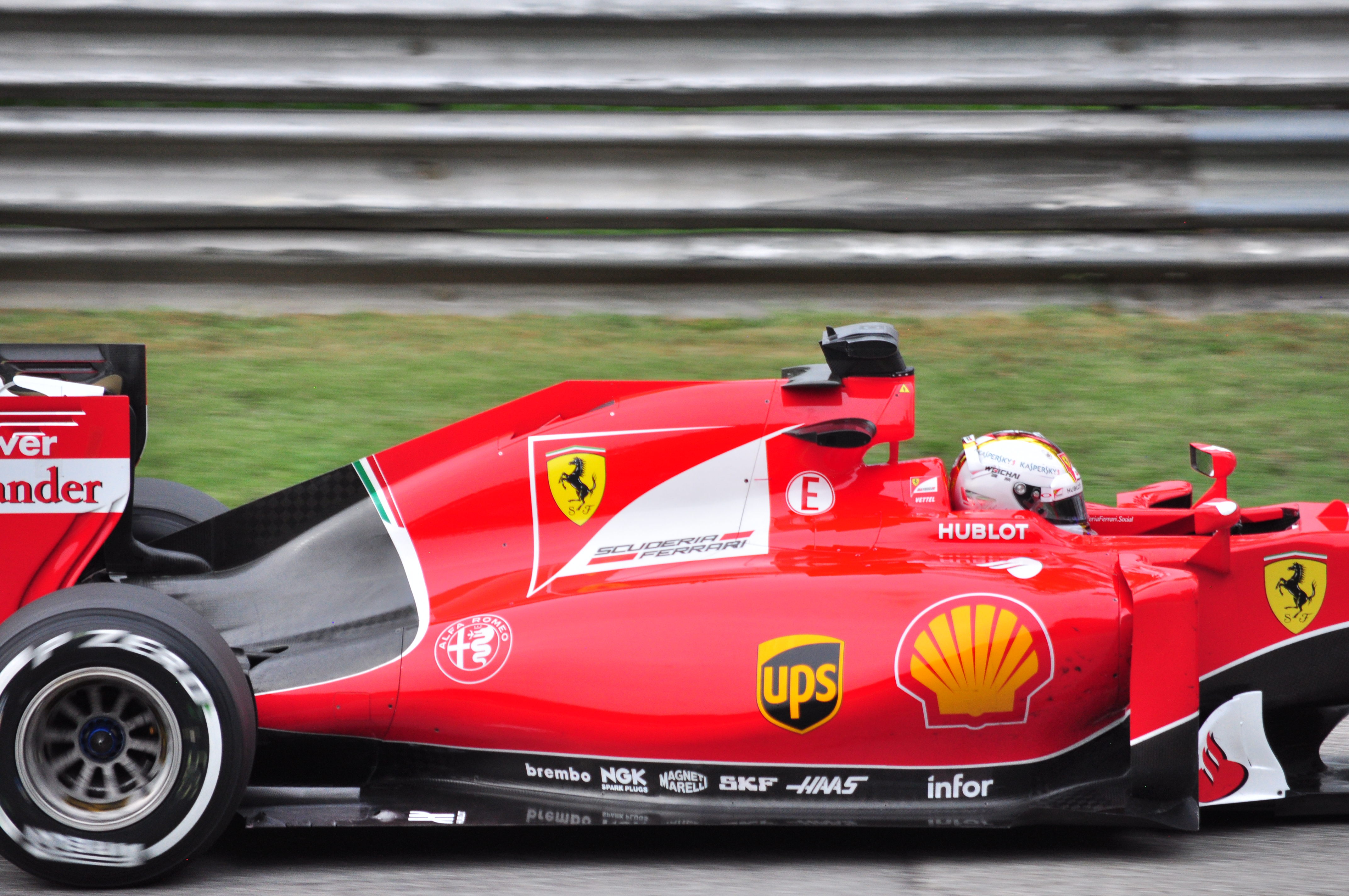 Sebastian Vettel in his Ferrari SF15-T